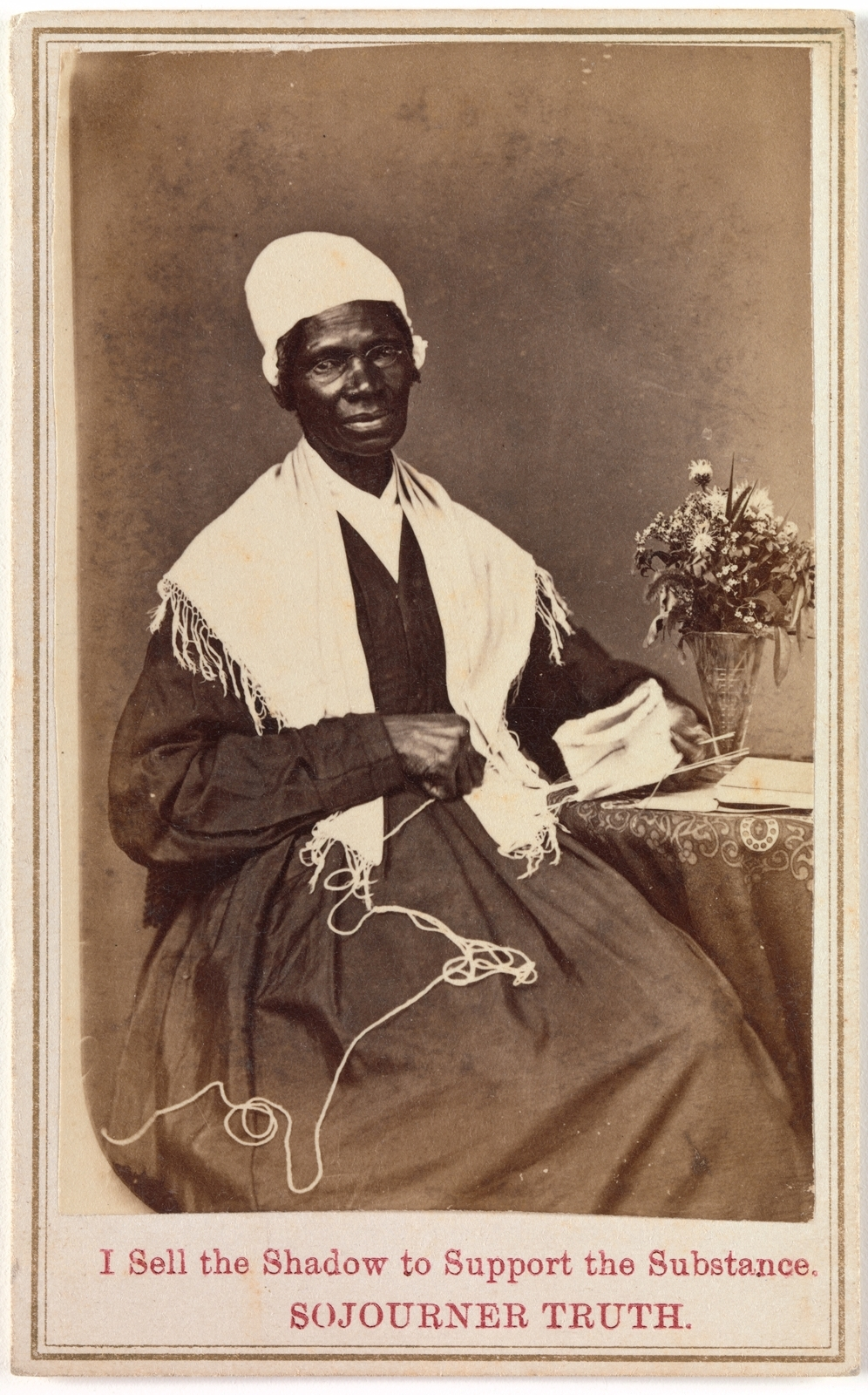 Carte de visite, Sojourner Truth (1797-1883), seated